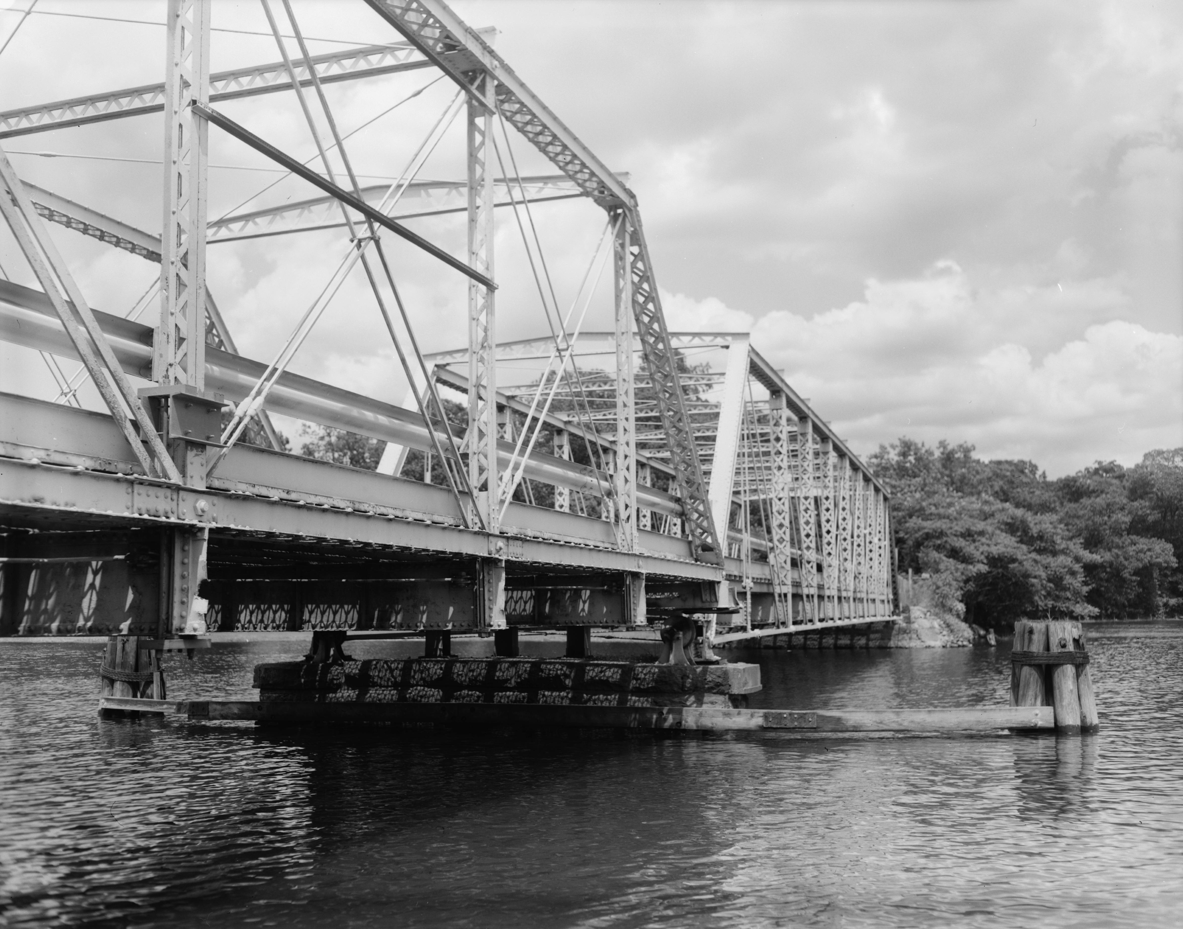 Saugatuck River Bridge, Spanning Saugatuck River at Route 136, Westport (Fairfield County, Connecticut)